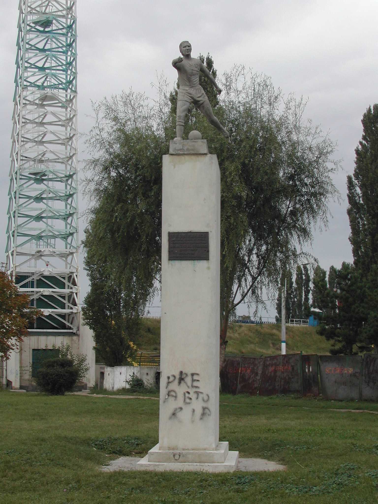 Statue of Ion Oblemenco. It stands in front of the stadium Ion Oblemenco in Craiova, Romania.